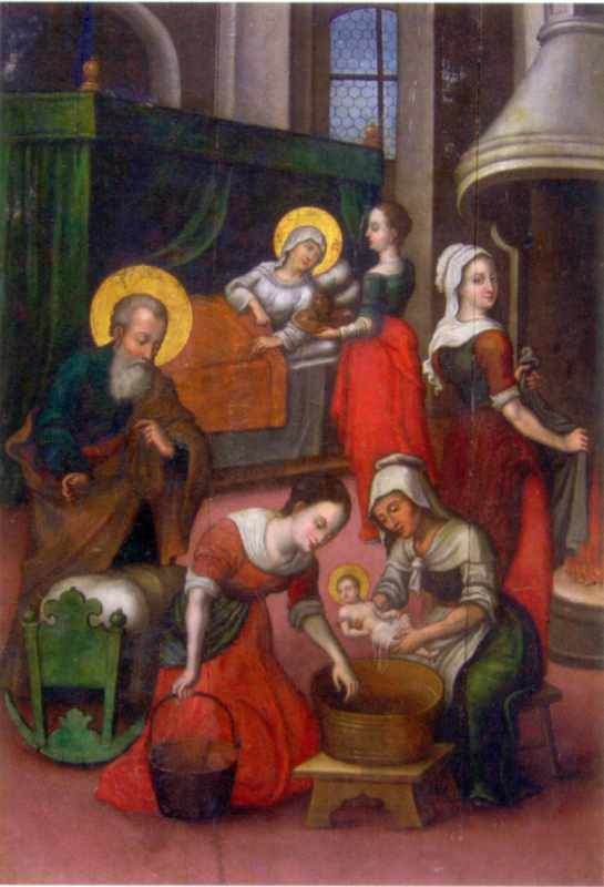 Різдво Богородиці 1722 р. Іконостас Загоровського монастиря (Вощатинський іконостас) Йов Кондзелевич